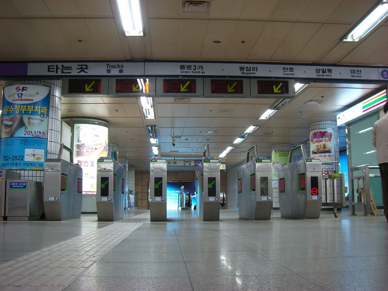 Yeouido Station